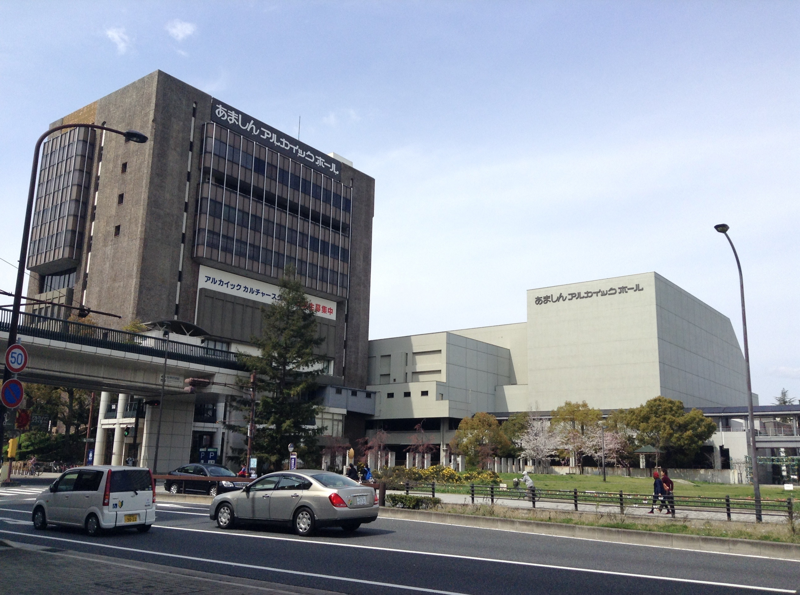 Amagasaki Culture Center